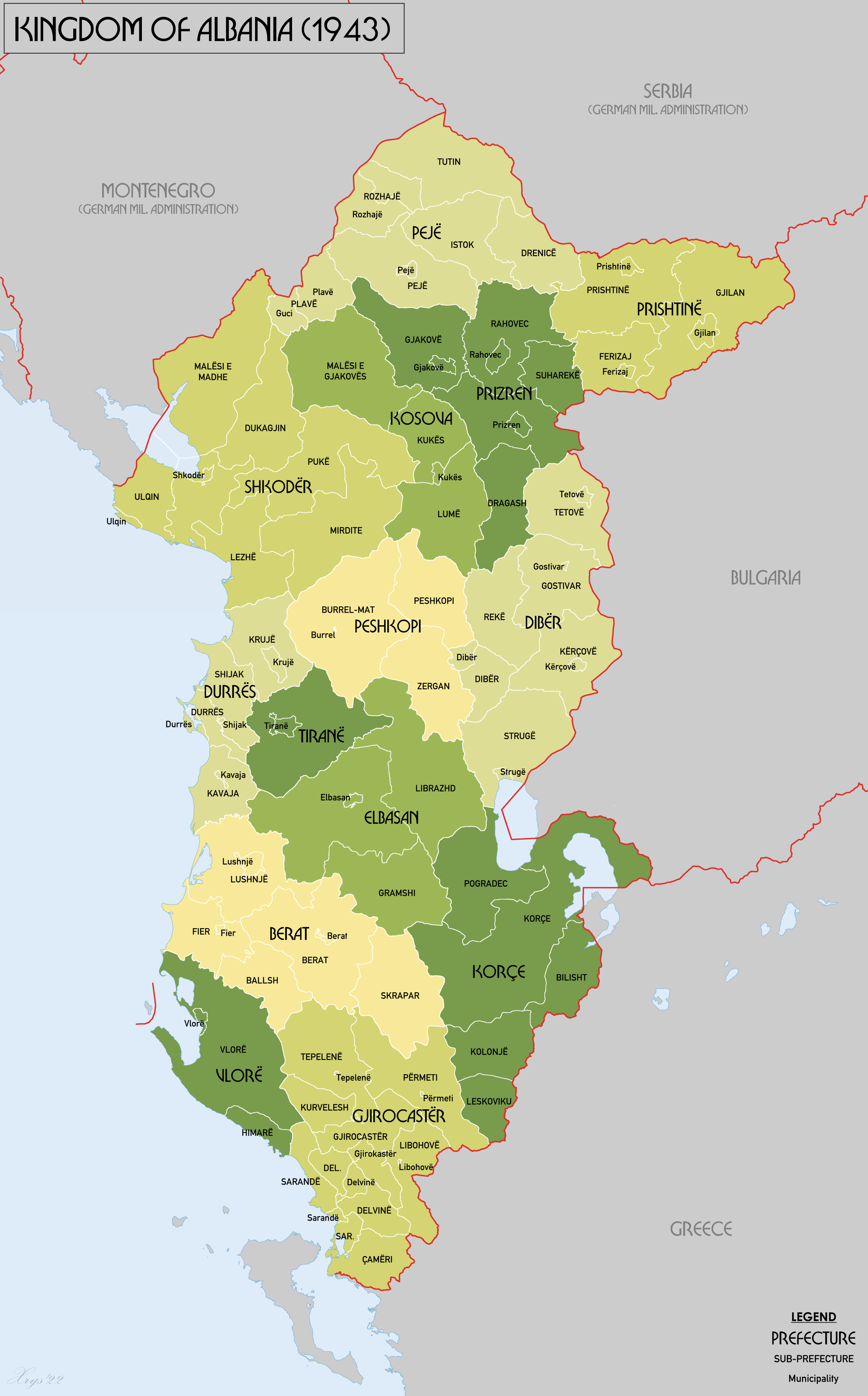 Administrative map of the Kingdom of Albania (1943). Source data: Ubersichtskarte von Mitteleuropa 1:300k ( Albania OR 5824, 1944 (British Library) Yugoslavia and Albania, MDR Misc 6779 (1943) (British Libary). Volkstumskarte von Jugoslawien 1:200k (York University, Toronto)